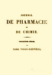 Scan de la page de garde du Journal de pharmacie et de chimie - Société de pharmacie de Paris - Troisième série, Tome vingt-neuvième - 1856